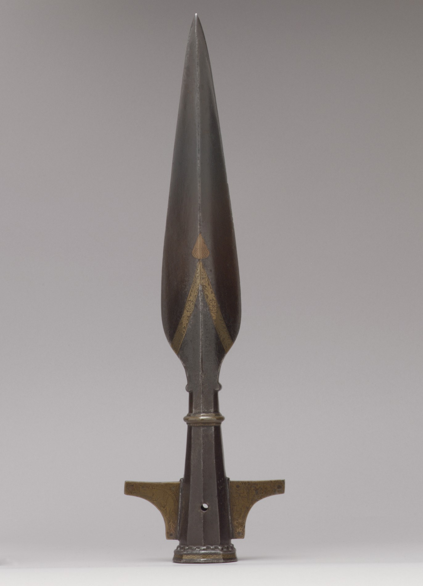 German or Austrian; Head of a hunting spear; Shafted Weapons